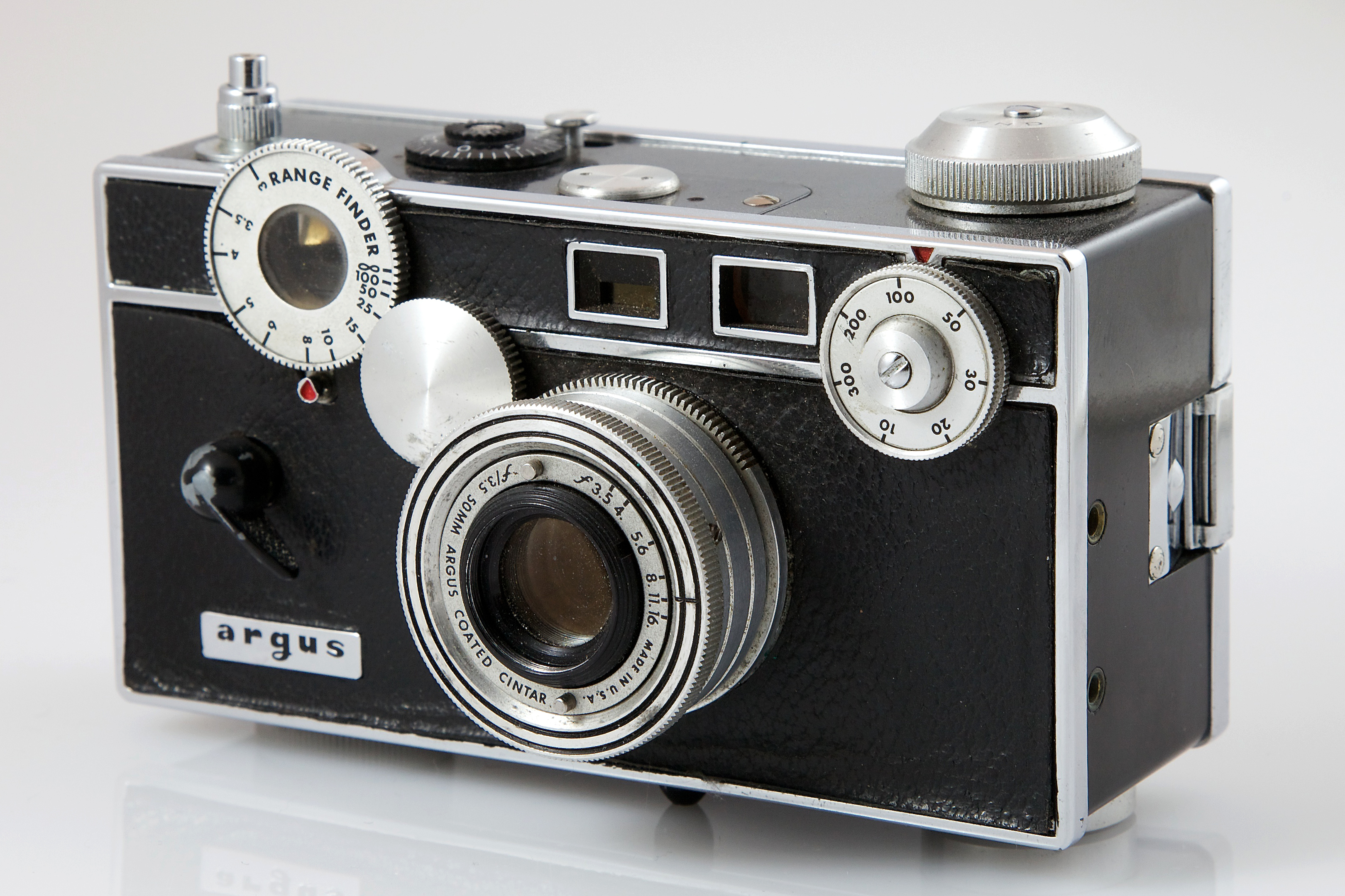 This was my Dad's, who used it in the 60s in Peru wile he was in the Peace Corp. A camera like this was also used as a prop in Harry Potter & the Chamber of Secrets. This thing is heavy and built like a tank. The Argus C3 was made from 1939 to 1966 by Argus Cameras, Inc. of Ann Arbor, MI. "The camera was the best-selling 35mm camera in the world for nearly three decades, and helped popularize the 35mm format. Due to its shape, size, and weight, it is commonly referred to as "The Brick" by photographers (in Japan its nickname translates as "The Lunchbox"). The most famous 20th century photographer who used it was Tony Vaccaro, who employed this model during World War II (see under Famous Patrons in this article)." - wikipedia The best Lightbox I've found is the Idirectmart Photo Tent. Great price too. Follow @kevitivity on twitter Please note that comments containing images / group icons will be deleted.